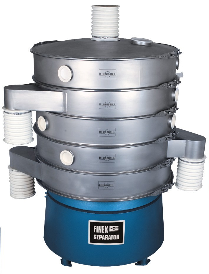 The Finex Separator for grading liquids and powders